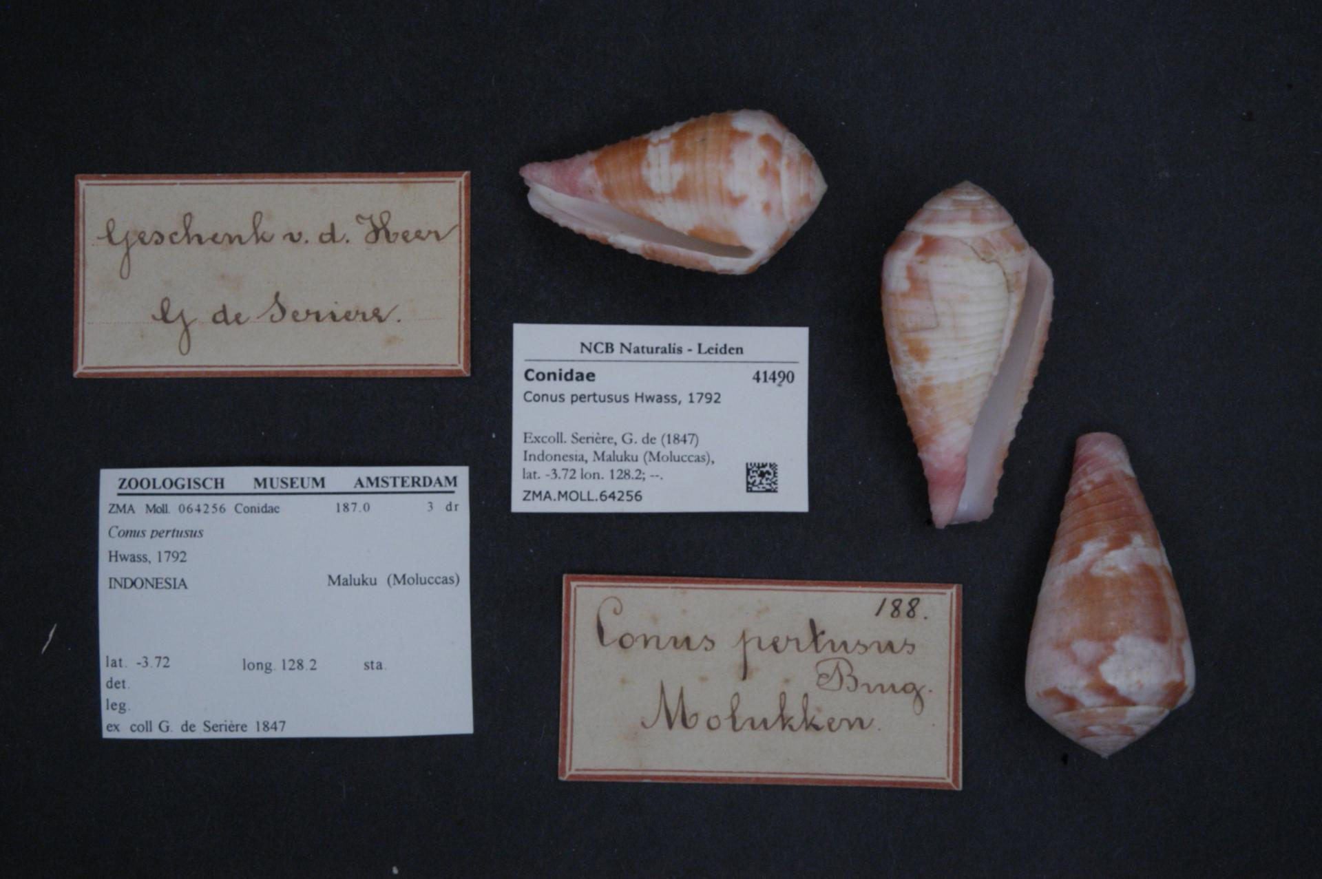 Conus pertusus Hwass, 1792